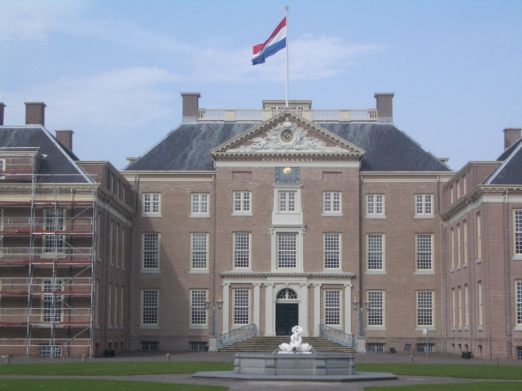 Castle "Het Loo" by Apeldoorn, The Netherlands